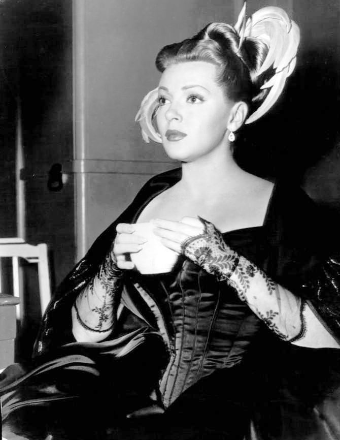 Photo of Lana Turner between takes on the set of the film Green Dolphin Street (1947).